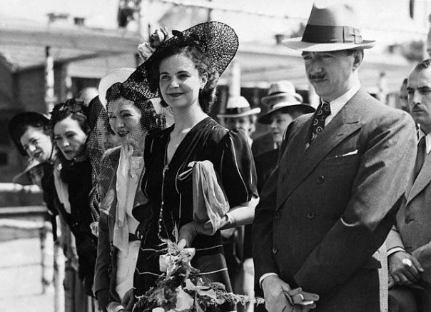 Ahmet Zogu and his family on July 20, 1939 in Sweden.